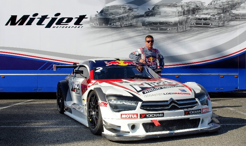 Loeb et sa supertourisme